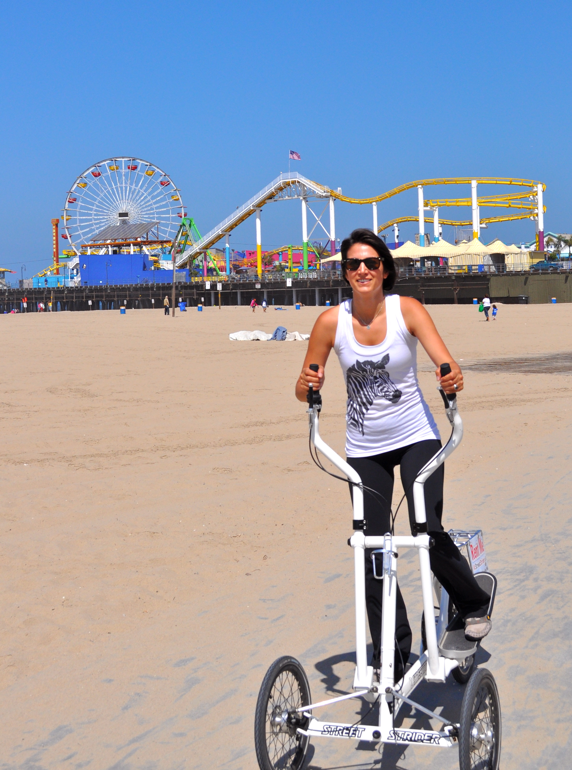 The bike paths in Santa Monica and Venice Beach give you a breath of fresh air when you are working out on a StreetStrider.